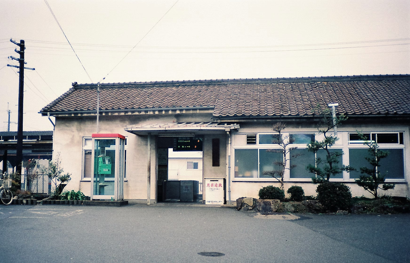 Nomura Station (present-day Nishiwaki Station) on the Kakogawa Line in Hyogo Prefecture, Japan